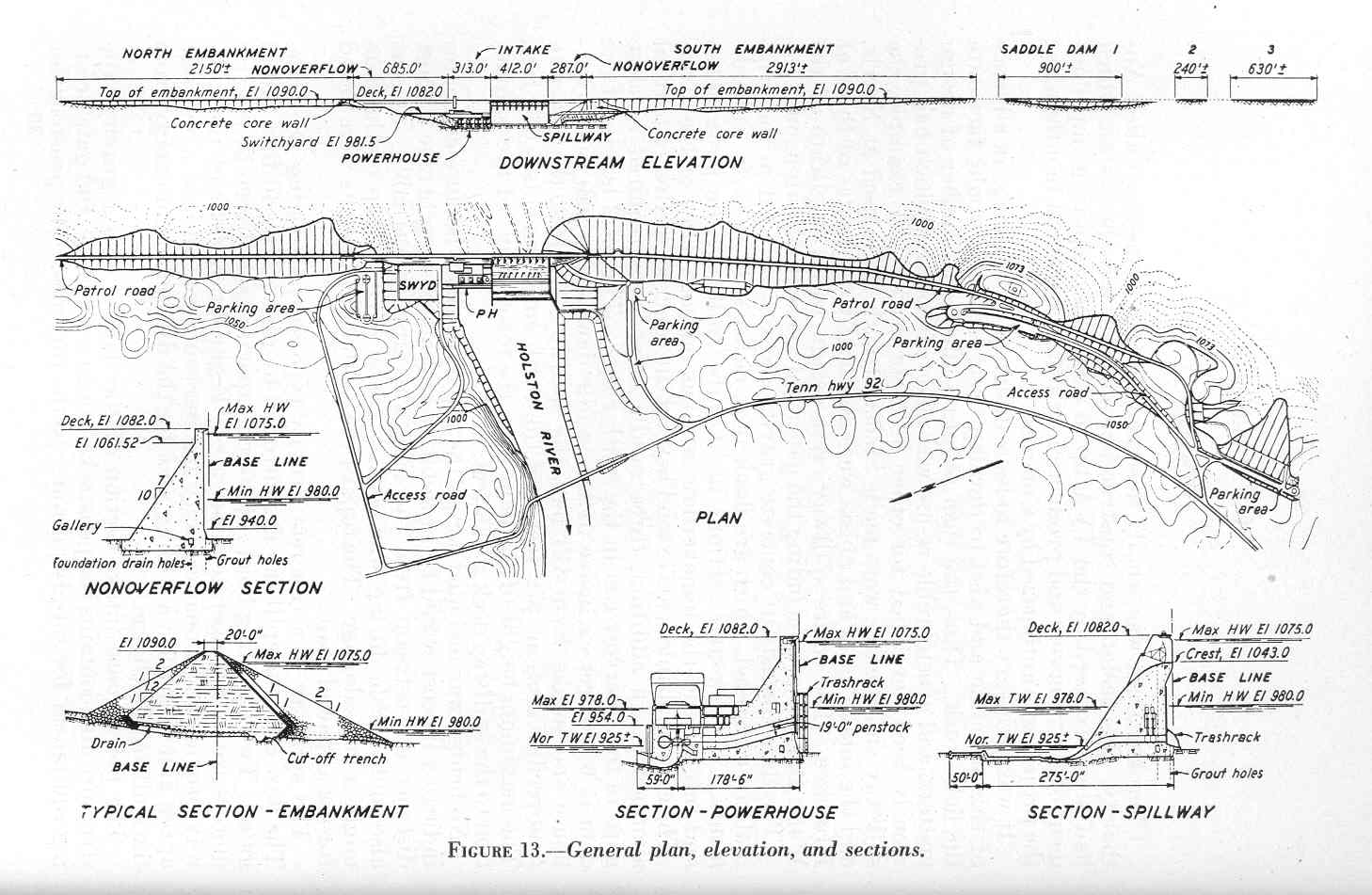 TVA's general plan for Cherokee Dam, which was built 8/1/1940-12/5/1941 along the Holston River in East Tennessee.